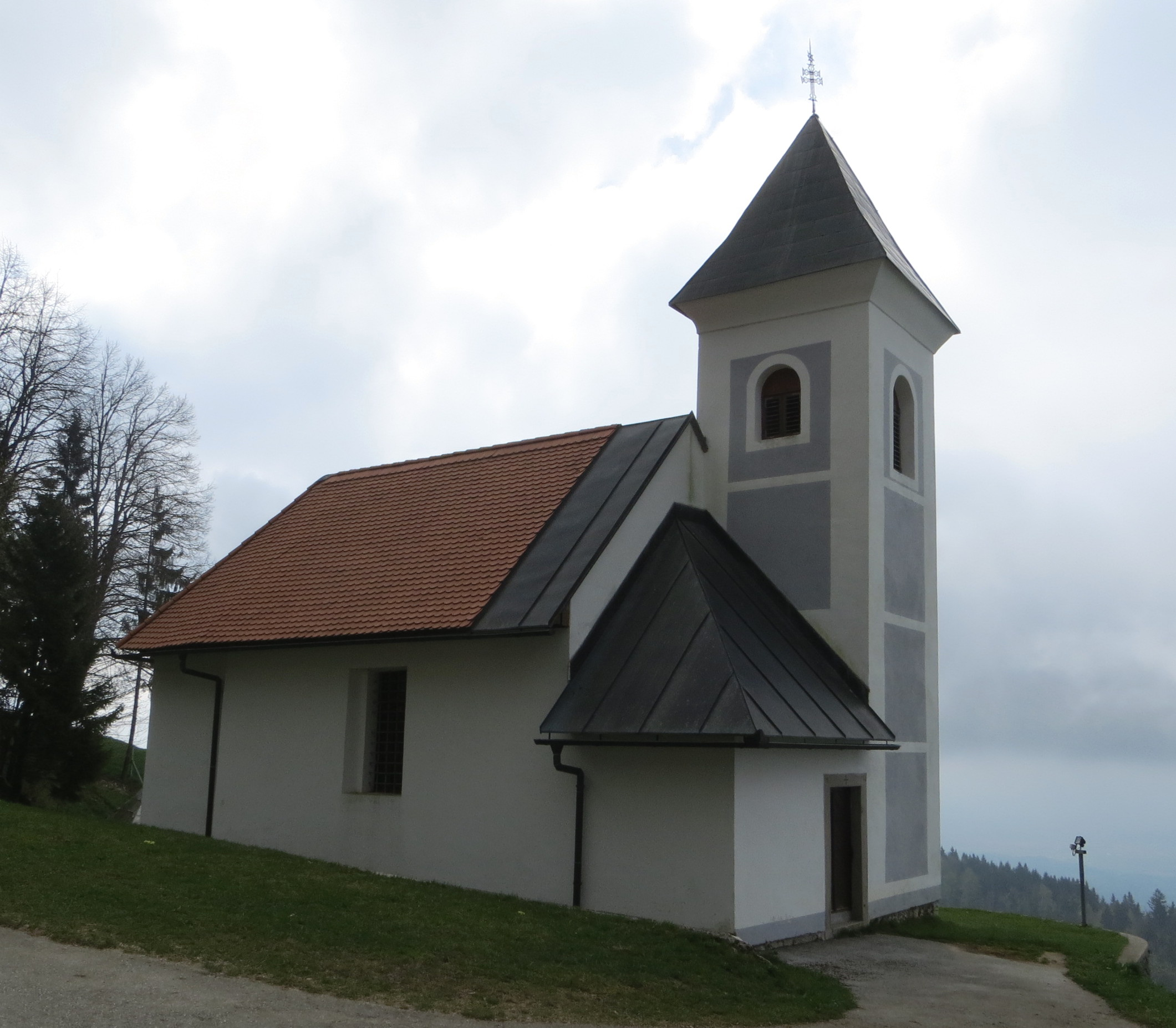 Saint Ambrose's Church in Ambrož pod Krvavcem, Municipality of Cerklje na Gorenjskem, Slovenia